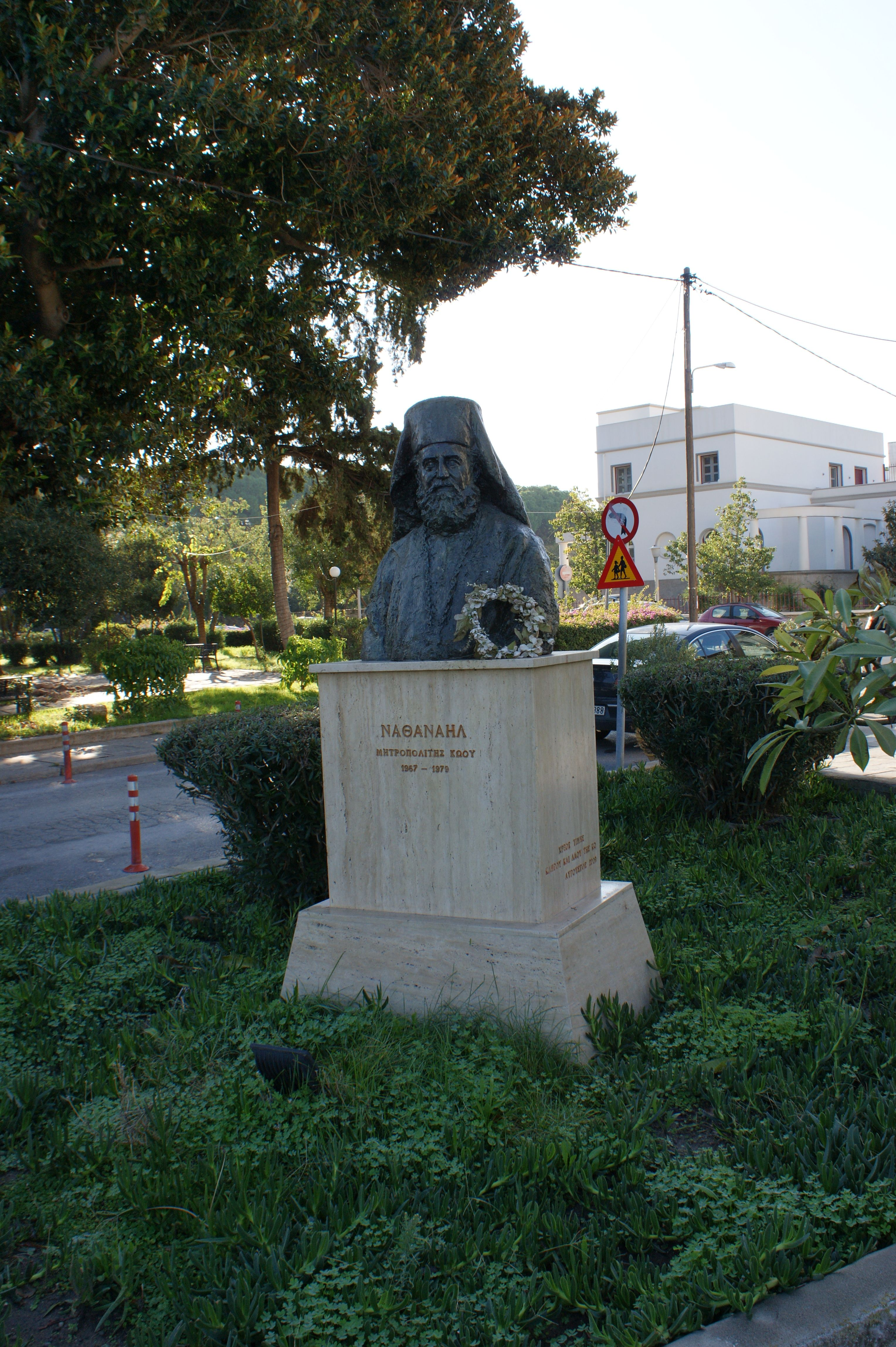 Cathedral (Metropolis) of Kos and Nisyros in the city of Kos on the Greek island of Kos. Bust of Metropolitan Nathaniel (Greek: ΝΑΘΑΝΑΗΛ / (NATHANAIL), Metropolitan on Kos from 1967 to 1979.